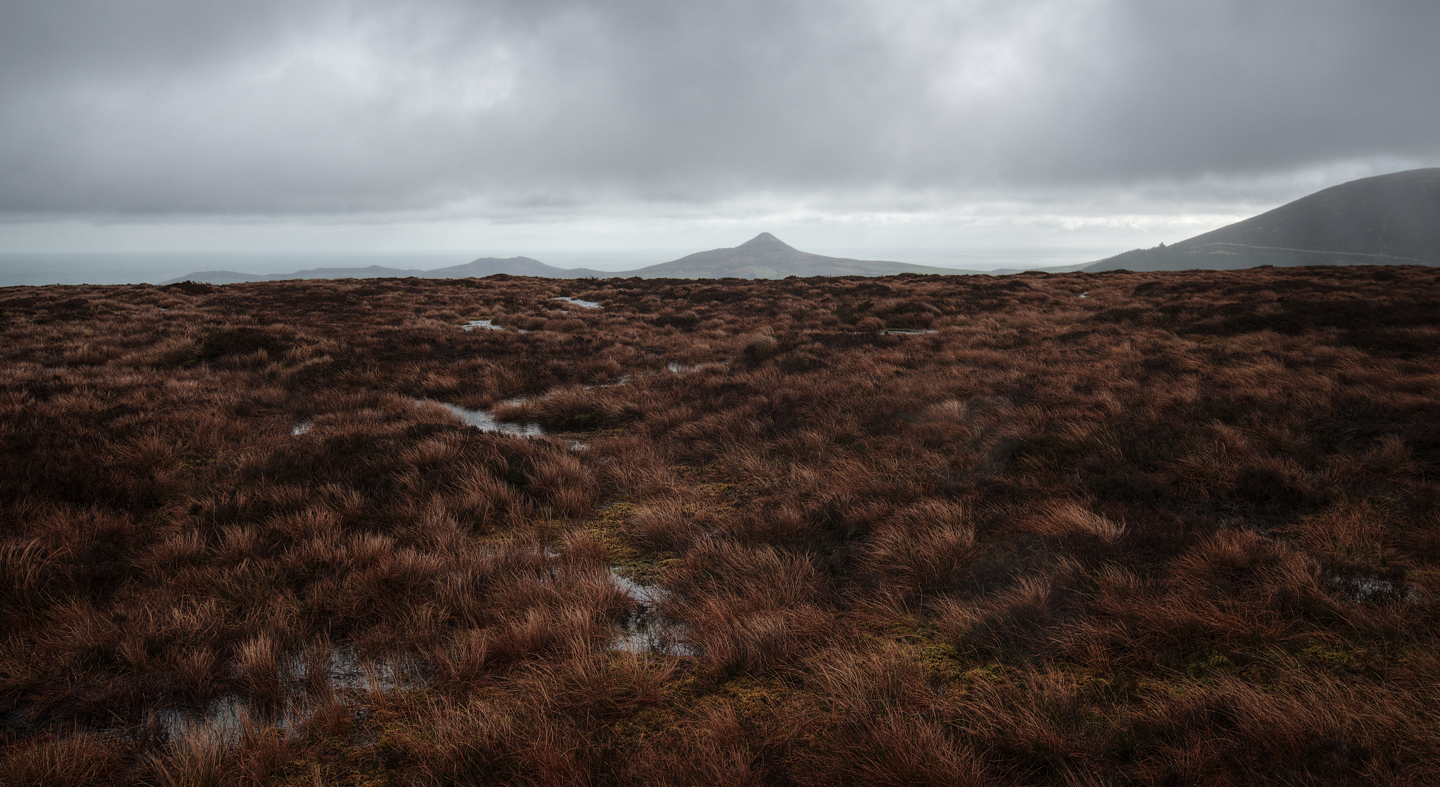 Tonduff (Tóin Dubh) literally translates as "black arse" - probably due to the thick bog covering its higher slopes.